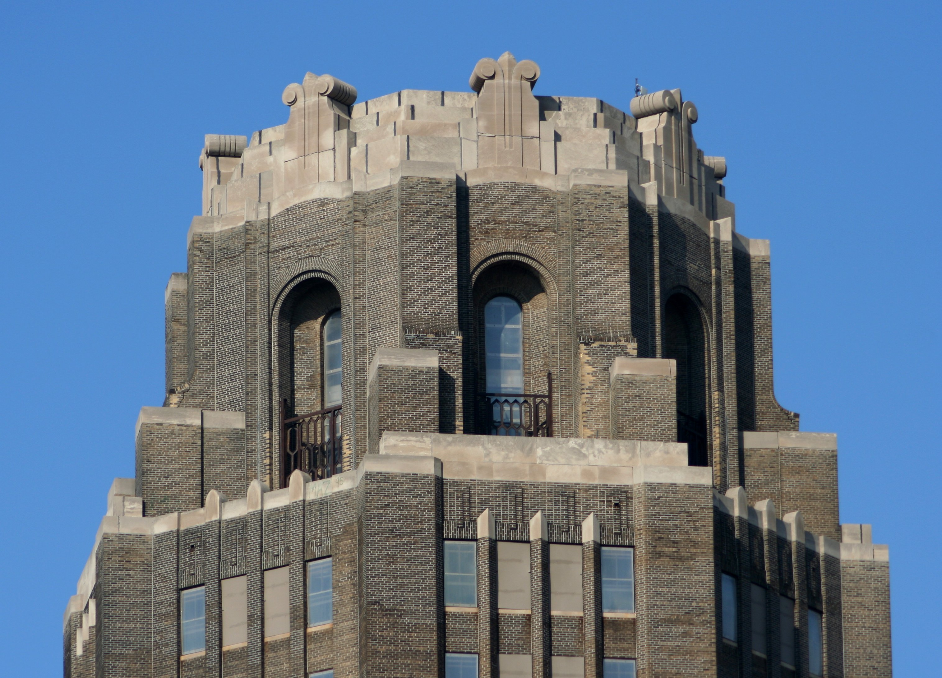 Buffalo Central Terminal - closeup of the top of the tower, viewed from the southwest.